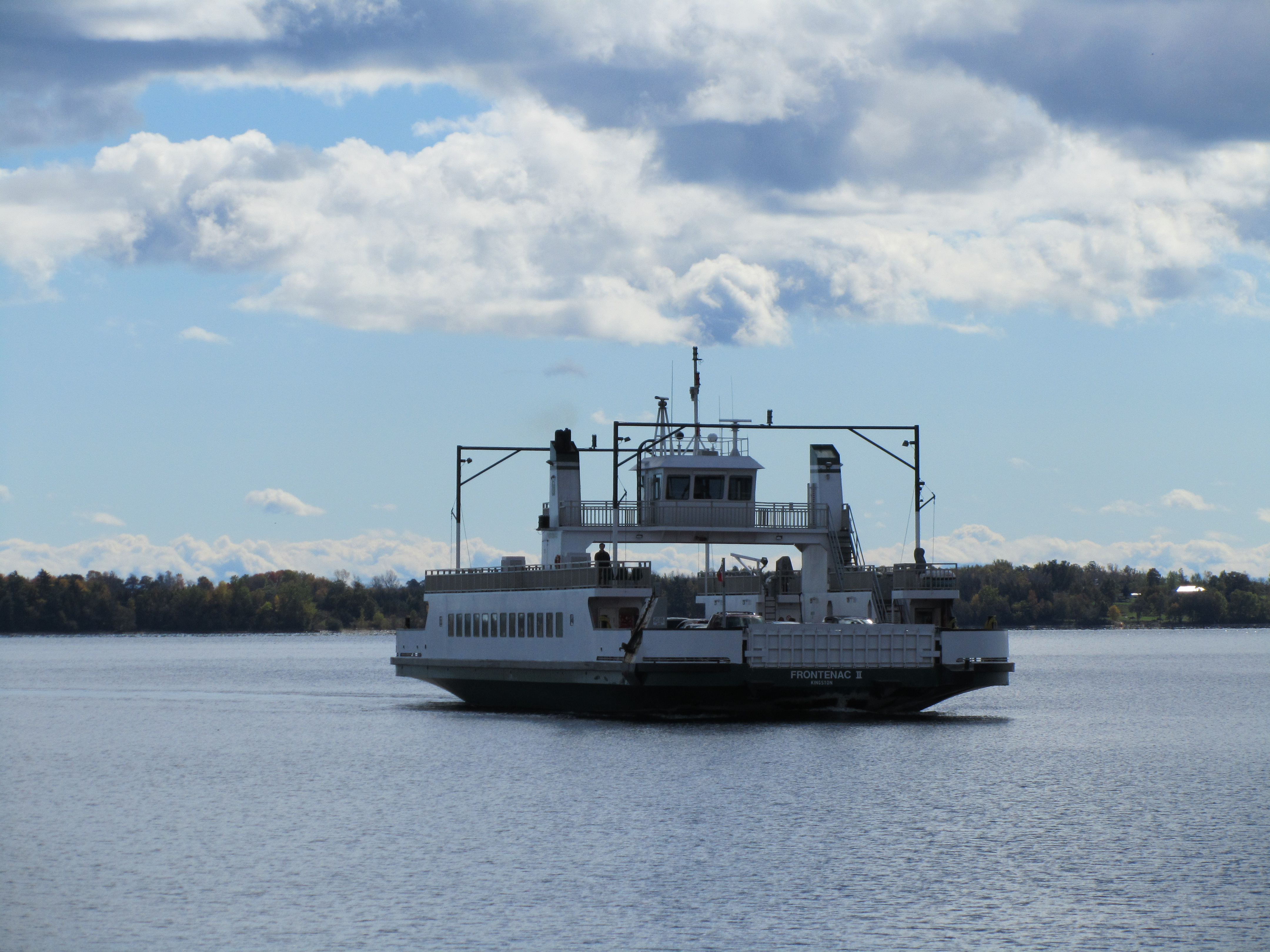 Amherst Island Ferry